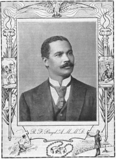 Photo of Robert Fulton Boyd, published in 1902 with his paper "What are the causes of the great mortality among the Negroes in the cities of the South, and how is that mortality to be lessened?"